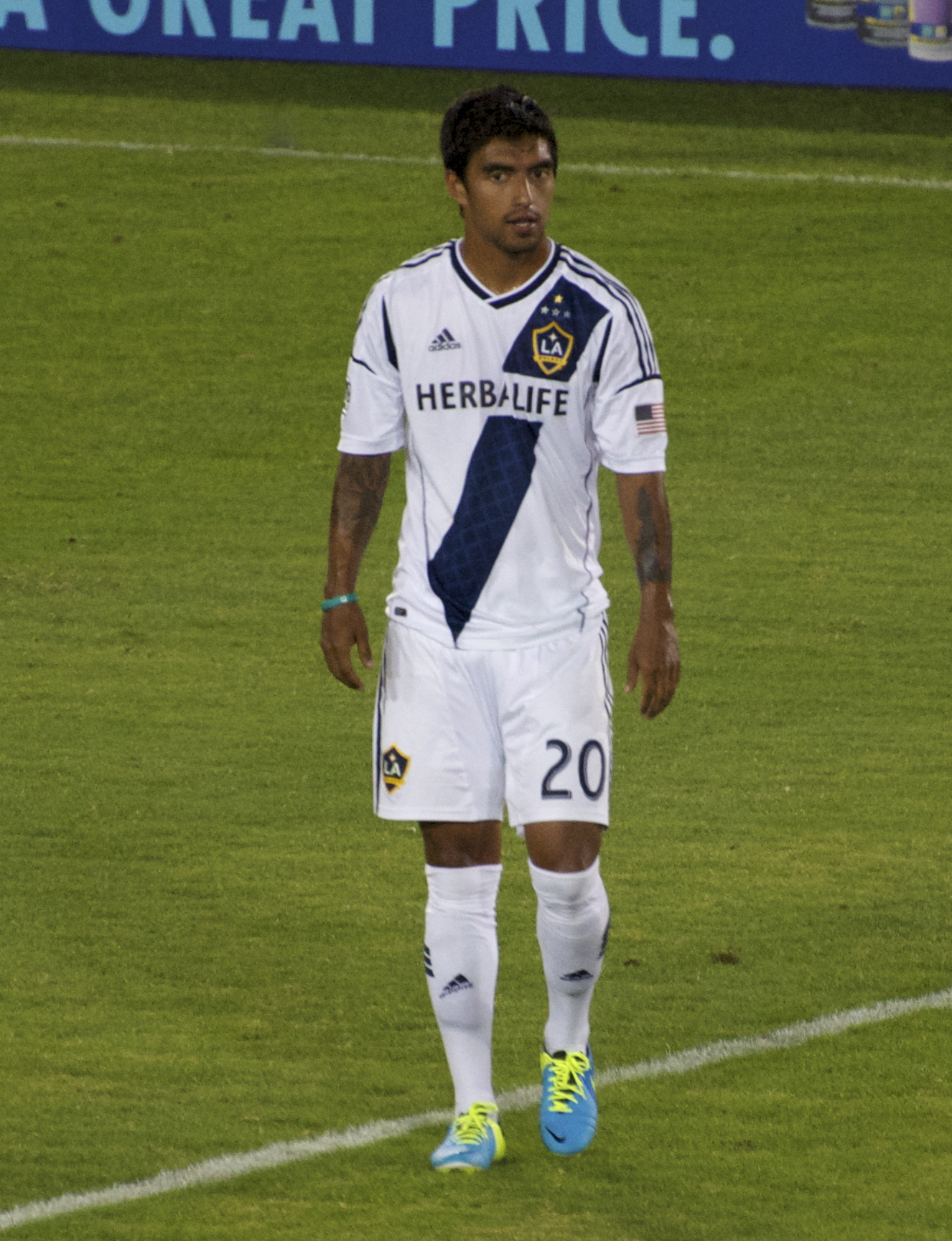 A.J. DeLaGarza, Stanford Stadium, LA Galaxy vs SJ Earthquakes, Saturday 2013-06-29